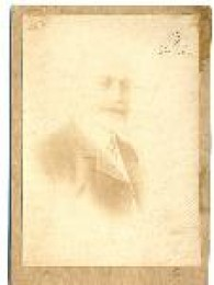 Giorgi Djuruli